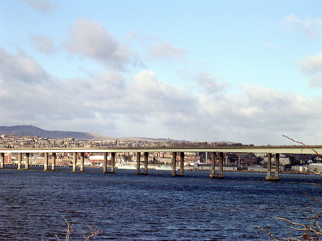 Tay Road Bridge seen from Fife, looking towards Dundee